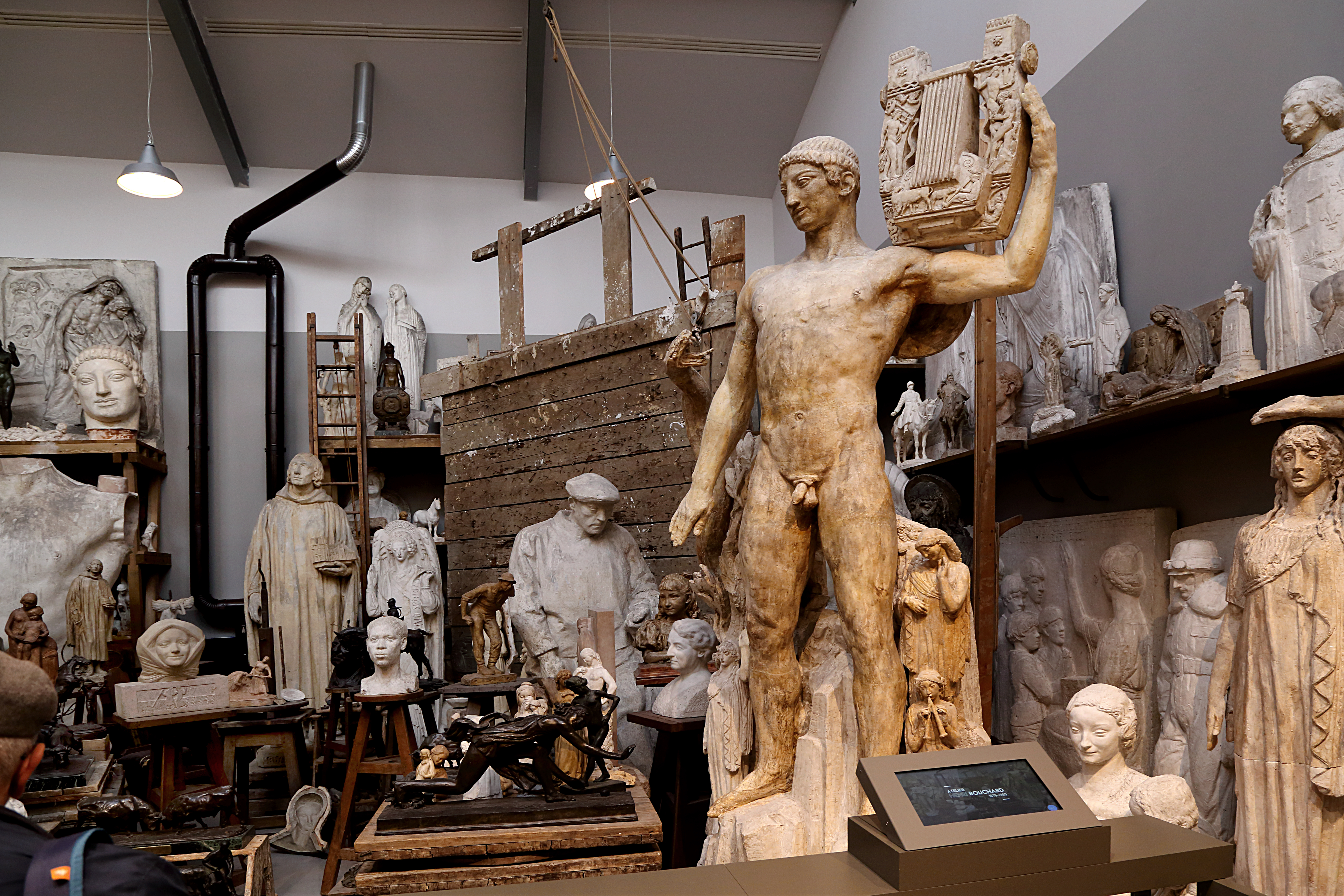 Atelier Henri Bouchard in the museum « La Piscine » of Roubaix, France.